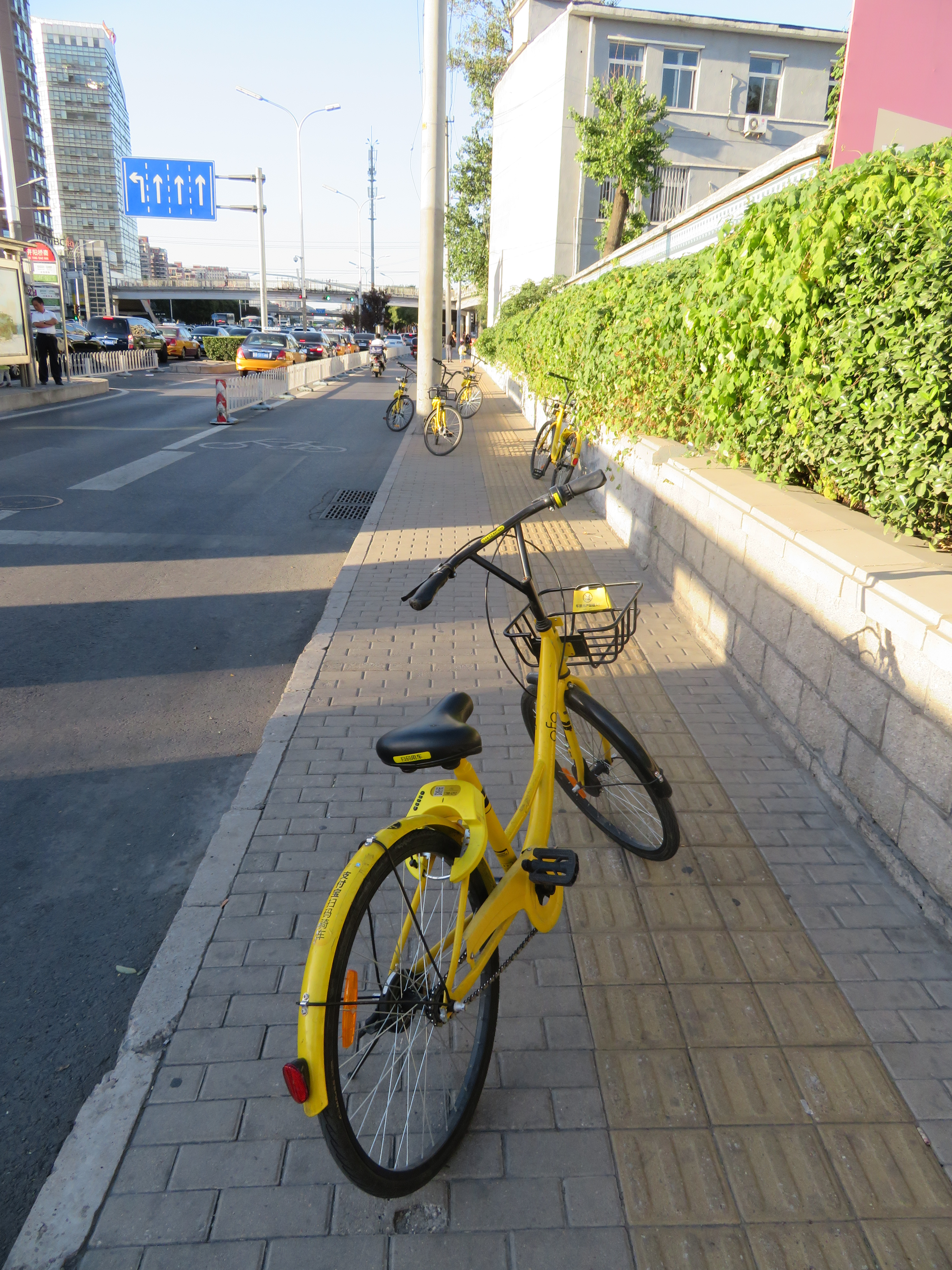 Ofo bikes randomly parked on the pavement near Beijing South Railway Station.